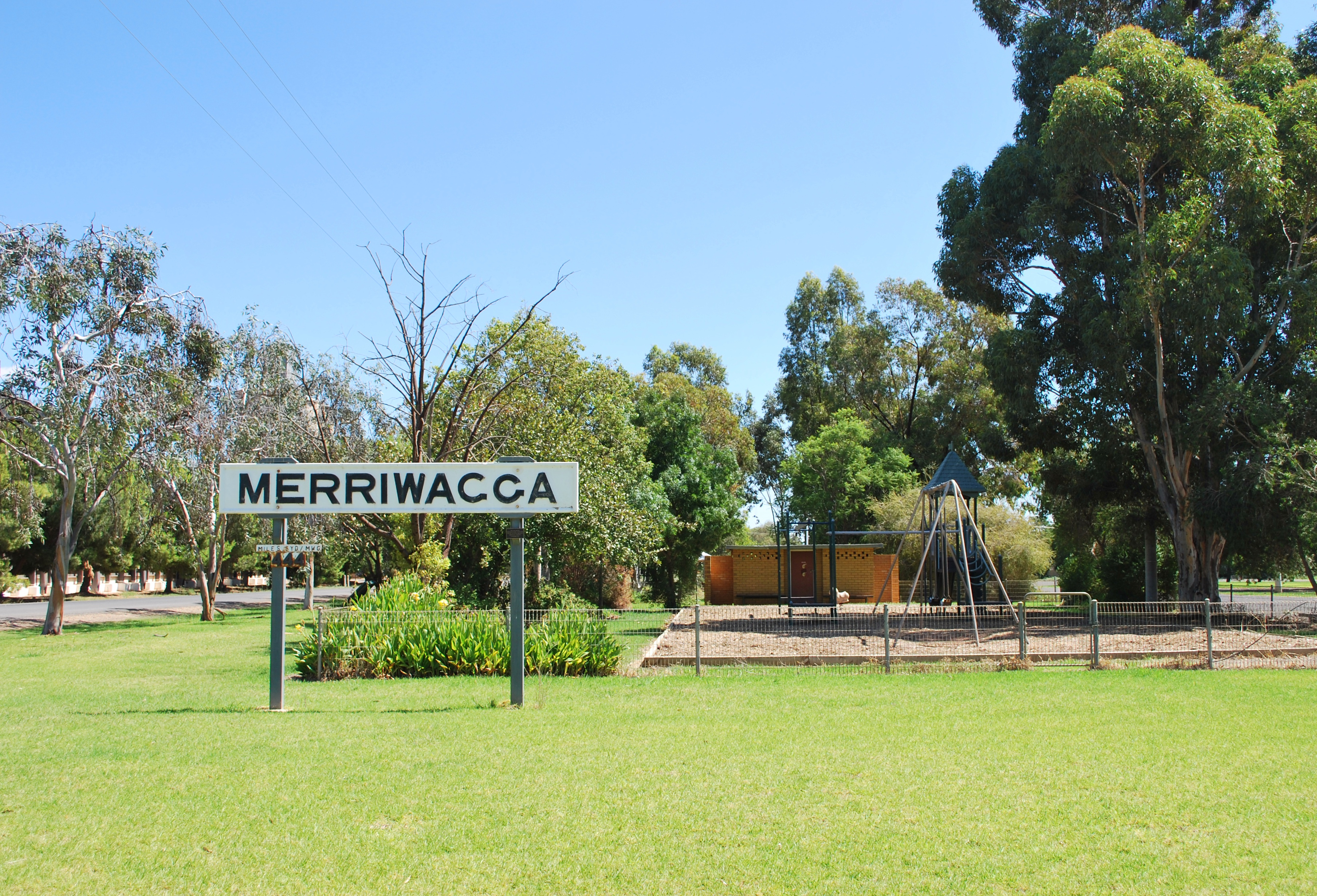 Railway station sign at Merriwagga, New South Wales